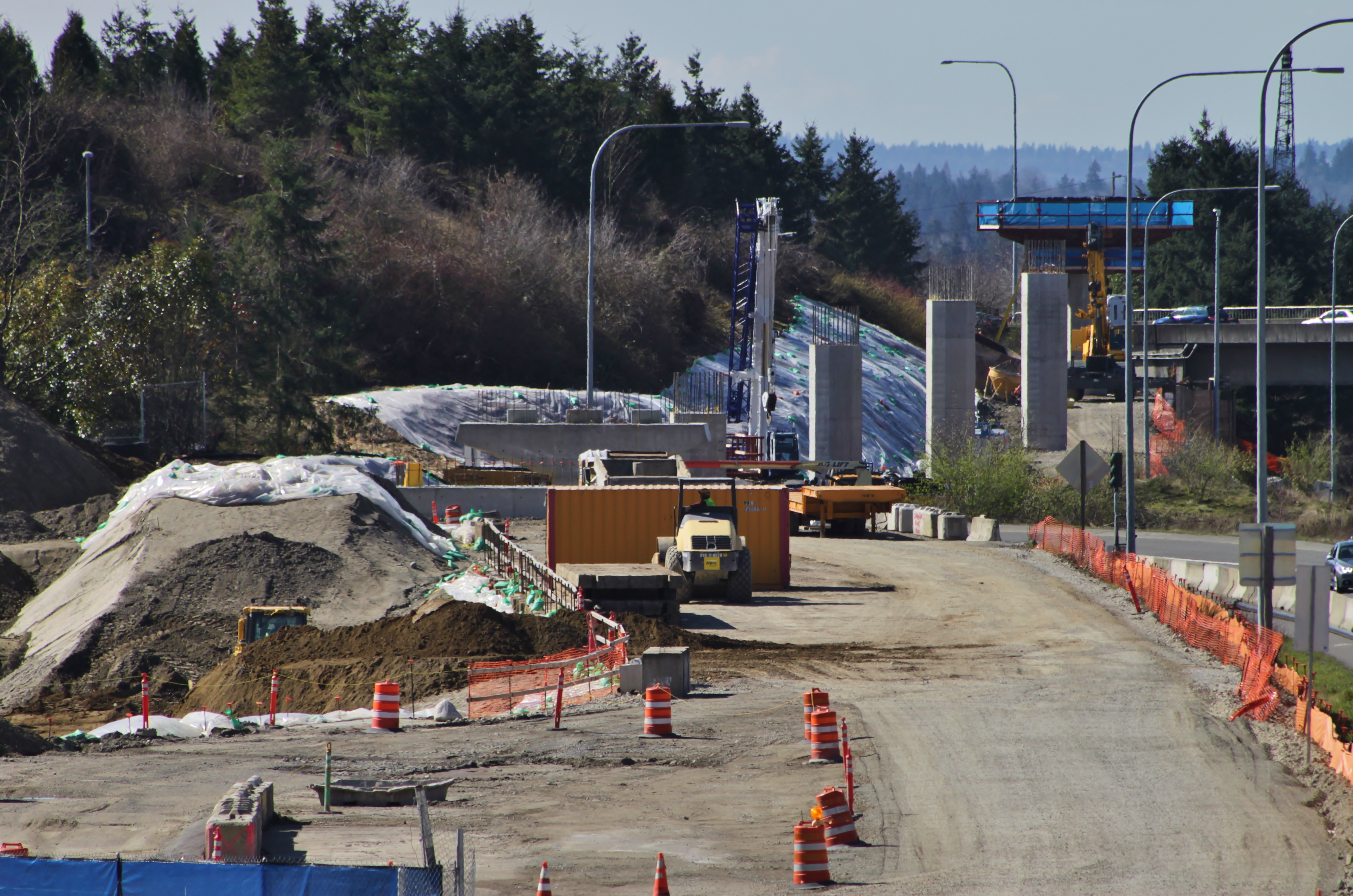 Site clearing and column construction at the Overlake Village light rail station in Bellevue, Washington.